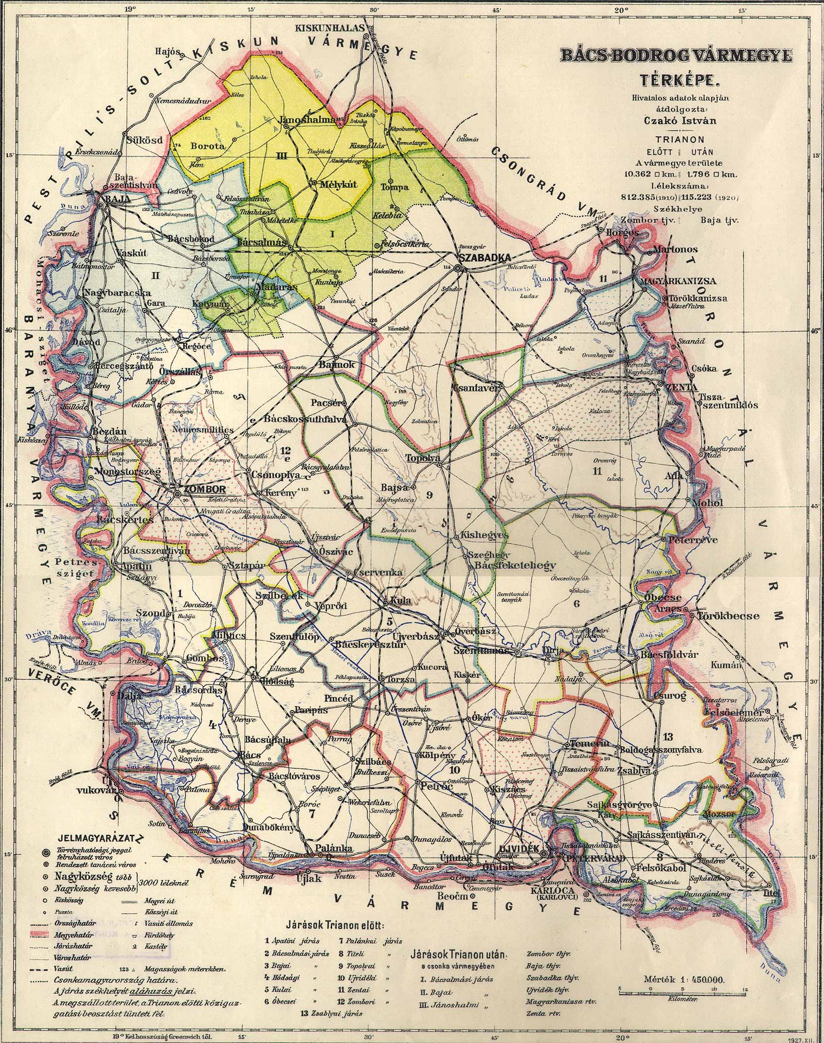 Administrative map of the county of Bács-Bodrog in the Kingdom of Hungary from 1927. In the Yugoslav territory it shows the administrative division before 1918.